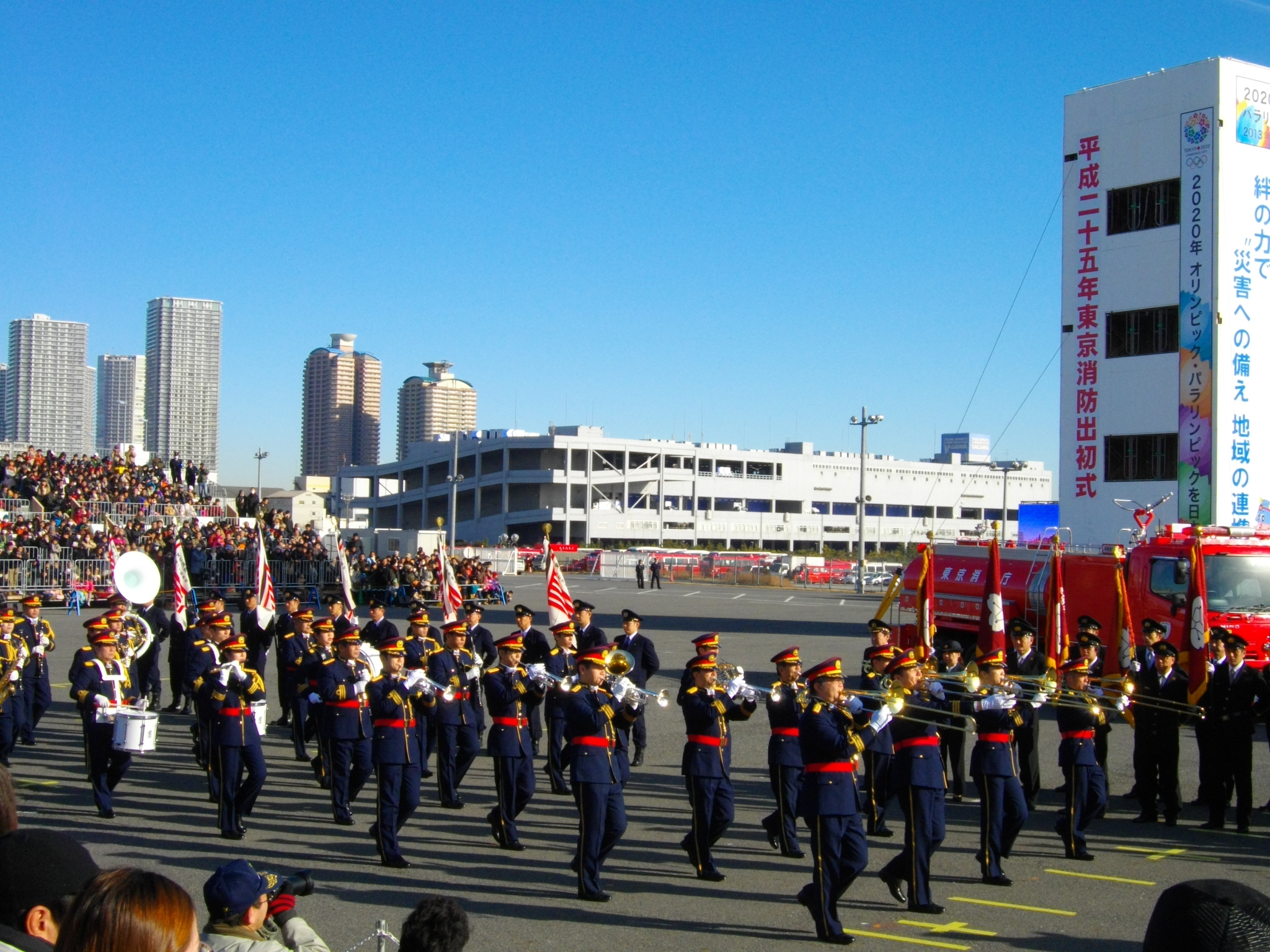 2013 Tokyo Fire Department Dezome Ceremony(Tokyo Fire Department Band)